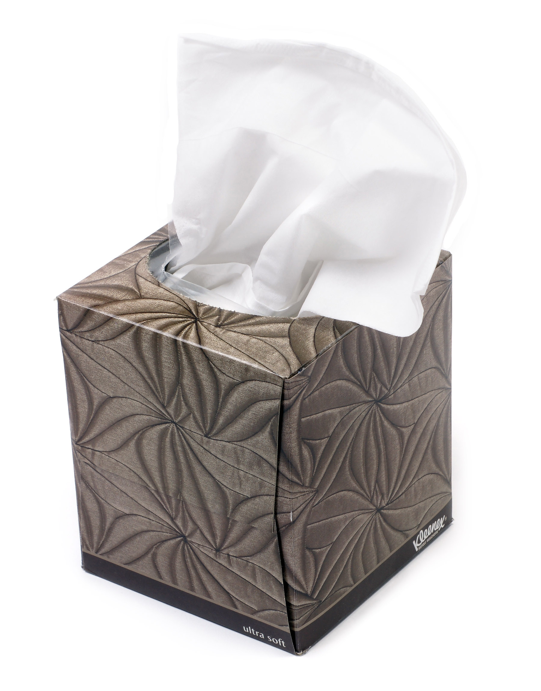 A small box of Kleenex.